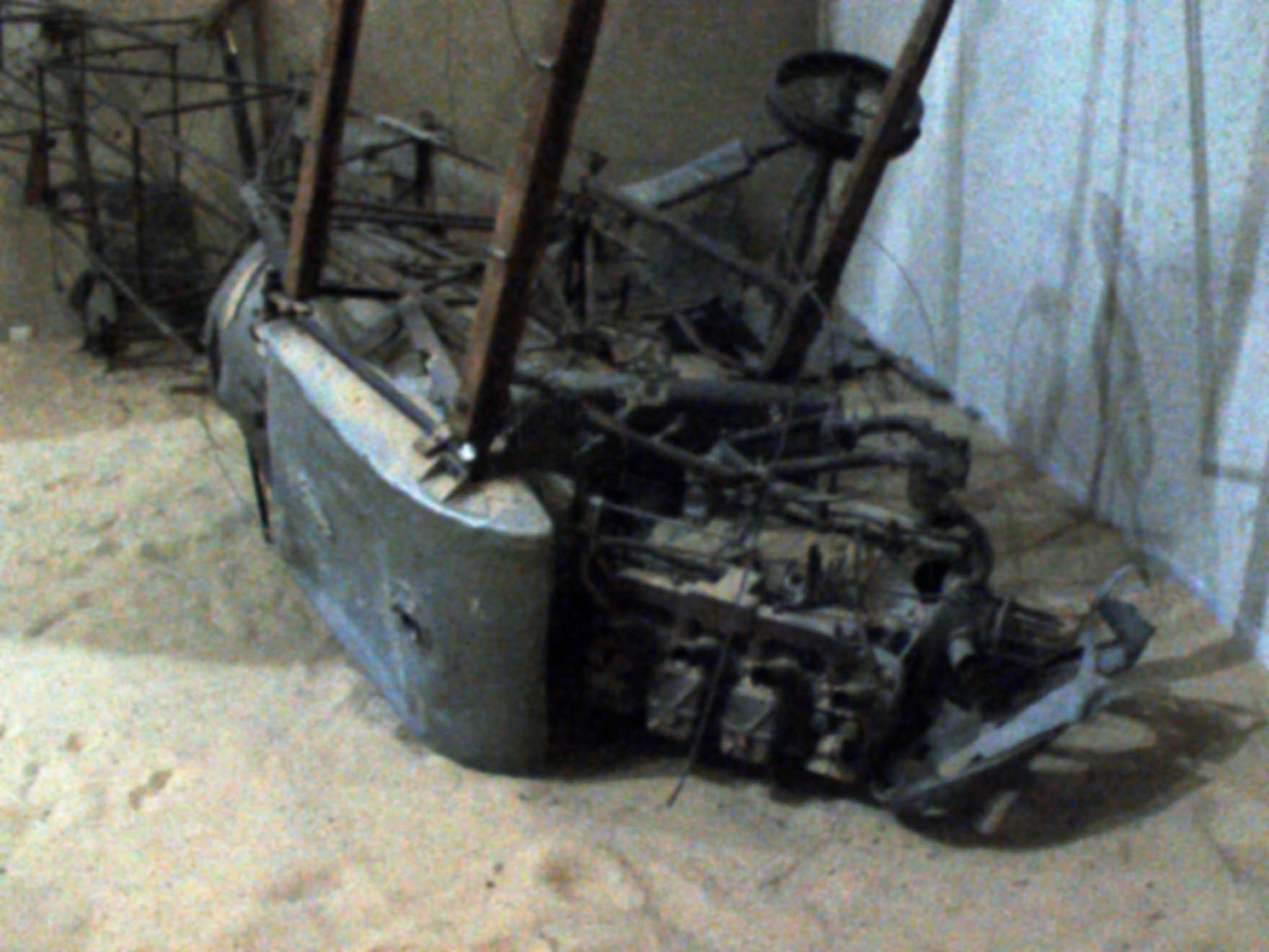 The wreckage of the Southern Cross Minor recovered from the Sahara Desert and displayed at the Queensland Museum. The wreckage of the Southern Cross Minor as previously displayed at the Queensland Museum. The wreckage is no longer on public display and has been removed to an unknown location as of April 2012.